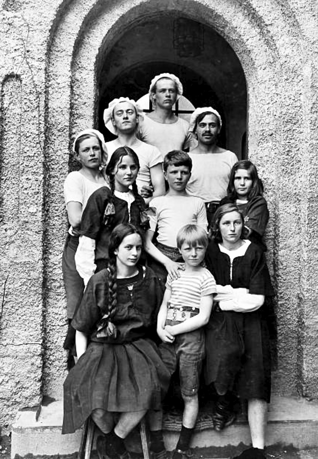 Pupils of the Free School Community in Wickersdorf near Saalfeld in the Thuringian Forest. Partly they are wearing white berets, which were part of the school uniform. Due to their colour and the way they were worn on the back of the head by some older students (well visible in this photo) these caps were jokingly referred to as 'bakers' caps. The caps, which are attributable to the German youth movement (Bündische Jugend), were undesirable during the Nazi era. From 1933, the uniforms of Deutsches Jungvolk (younger boys up to the age of 13) and the Hitler Youth (older boys over the age of 14) on the school grounds and in class were dominant.